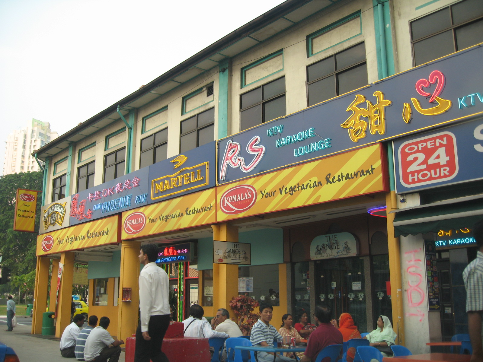 Komala's Restaurant at 328–332 Serangoon Road, Singapore.